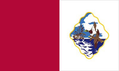 Cecil County, Maryland Flag